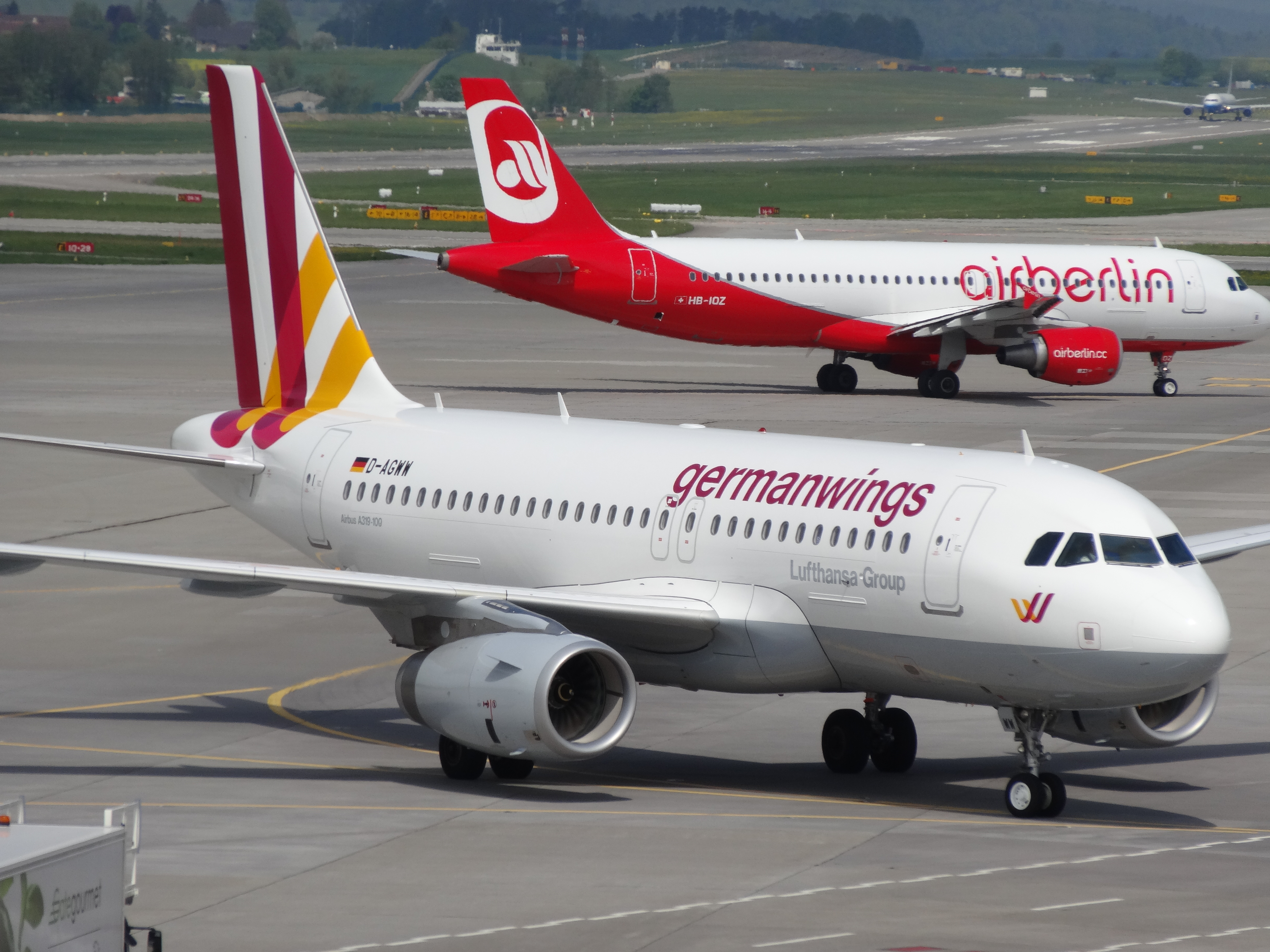 Airbus A319-109 of Germanwings (D-AGWW) and an Airbus A320 (HB-IOZ) of Air Berlin at Zurich Airport (ZRH).